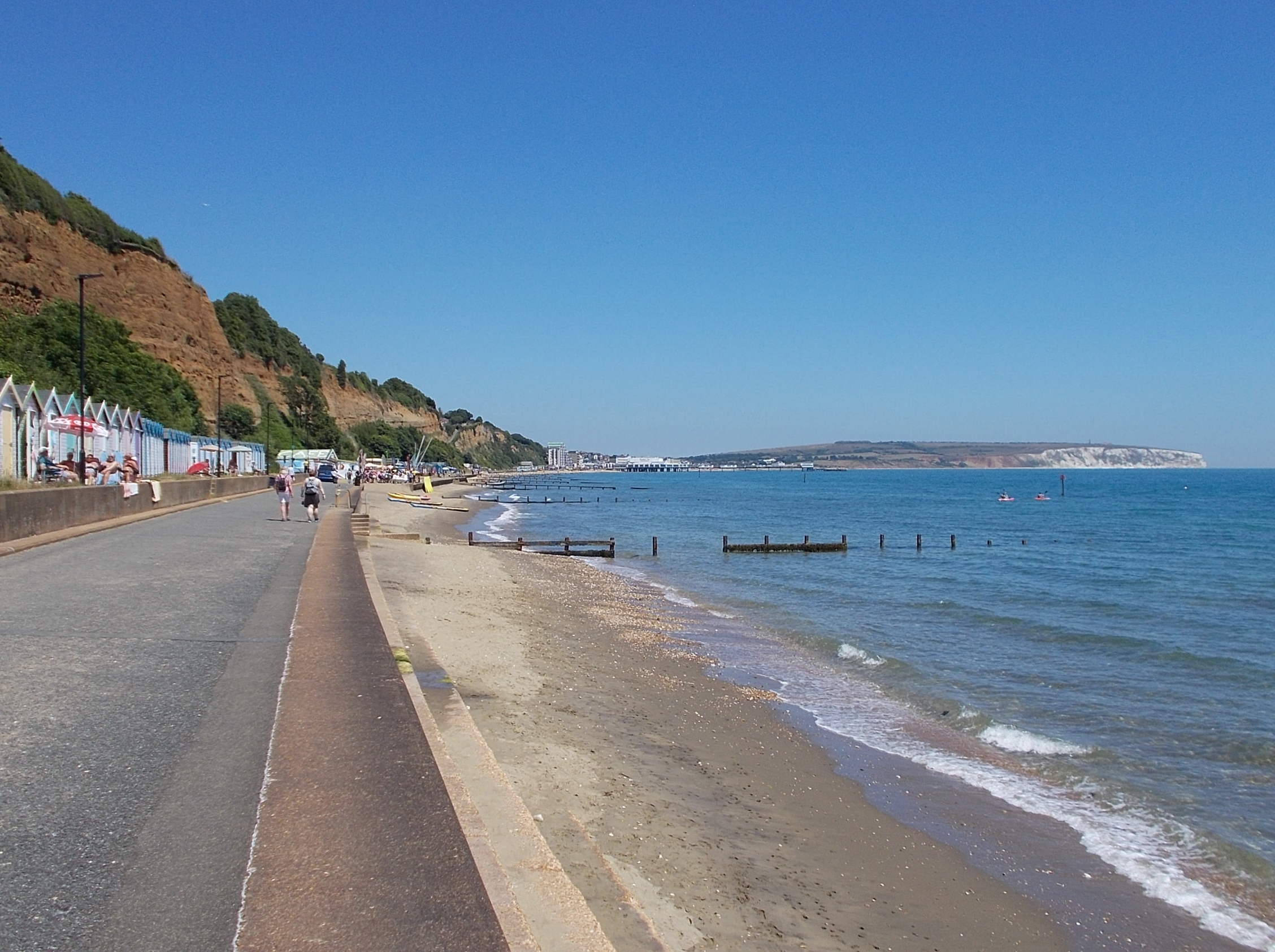 Sandown Bay, Isle of Wight, UK; view north-east towards Sandown, with the white chalk of Culver Cliff in the distance